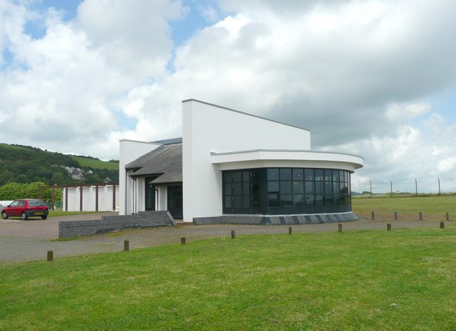 The Museum of Speed, Pendine / Pentywyn Pendine Sands are famous as the site of land speed record attempts. Malcolm Campbell broke the 150mph barrier here in 1925. The museum has 'Babs', the car in which J. G. Parry-Thomas was killed whilst attempting to break the record speed in 1927.